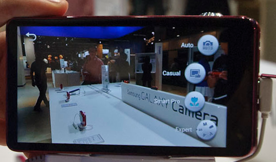 Rear side of the Samsung Galaxy Camera